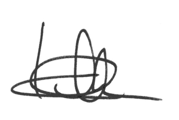 Signature of Klaus Merten, German Communication Theorist